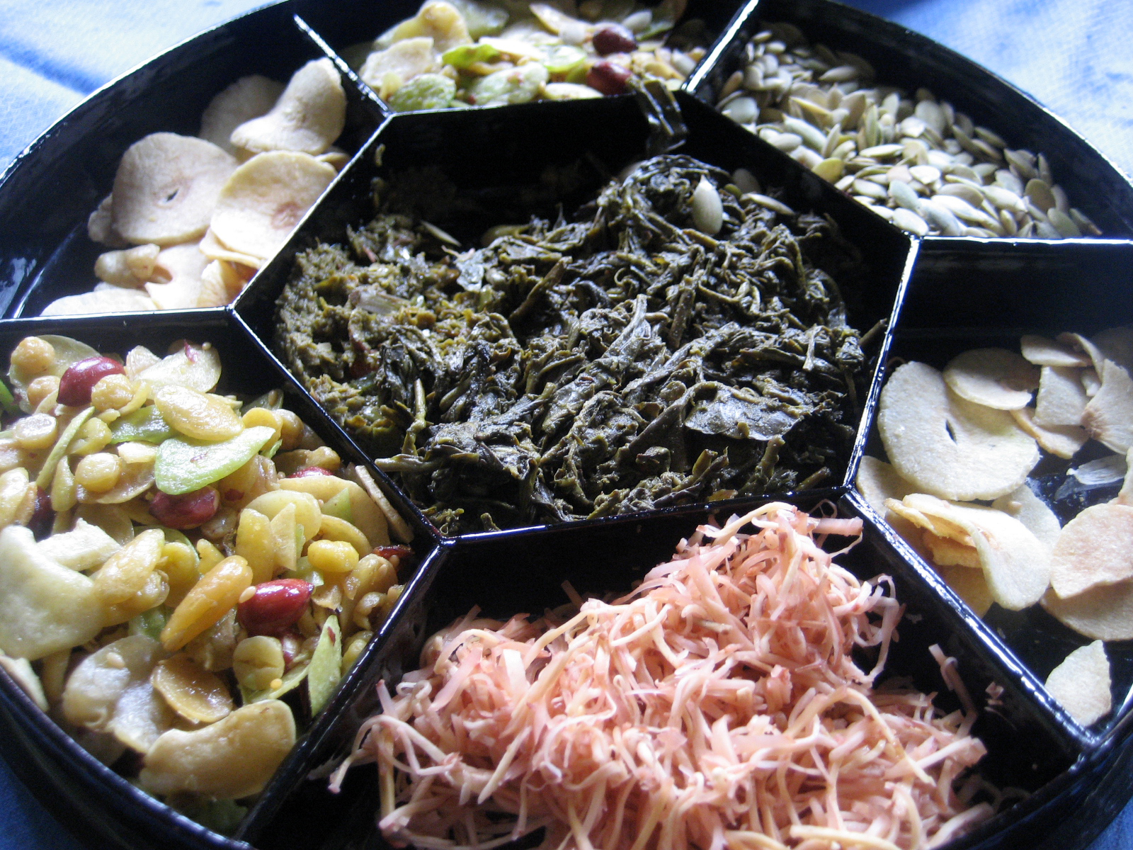 Sagaing, Myanmar lahpet or pickled green tea served in a lacquer dish